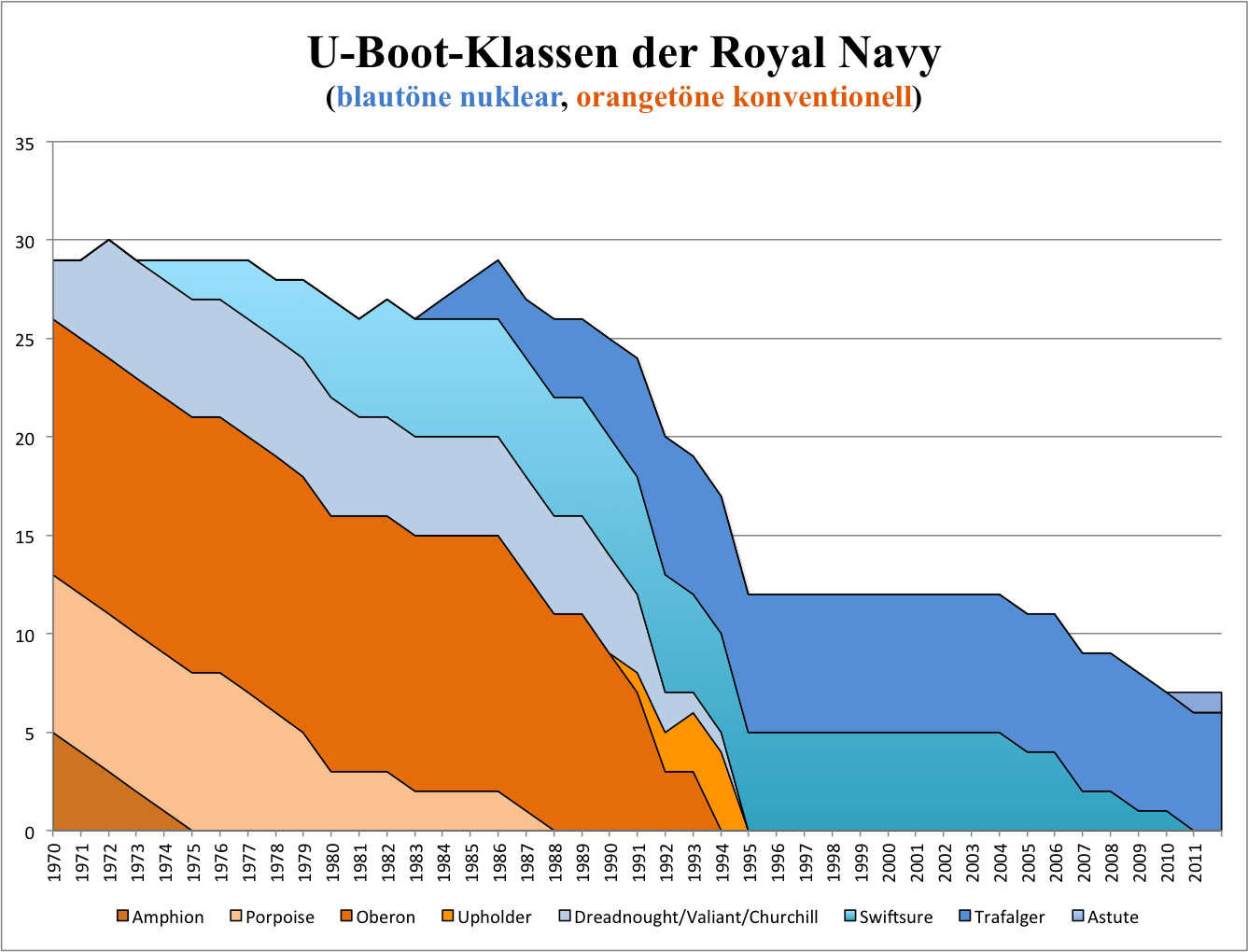 Development of the different Royal Navy attack submarine classes since 1970. Only commissioned and active vessels ar included, consequently training and reserve boats are excluded. The numbers of each year are for January, 1. The graph shows the sharp decline in submarine numbers and the decommissioning of all conventional submarines.